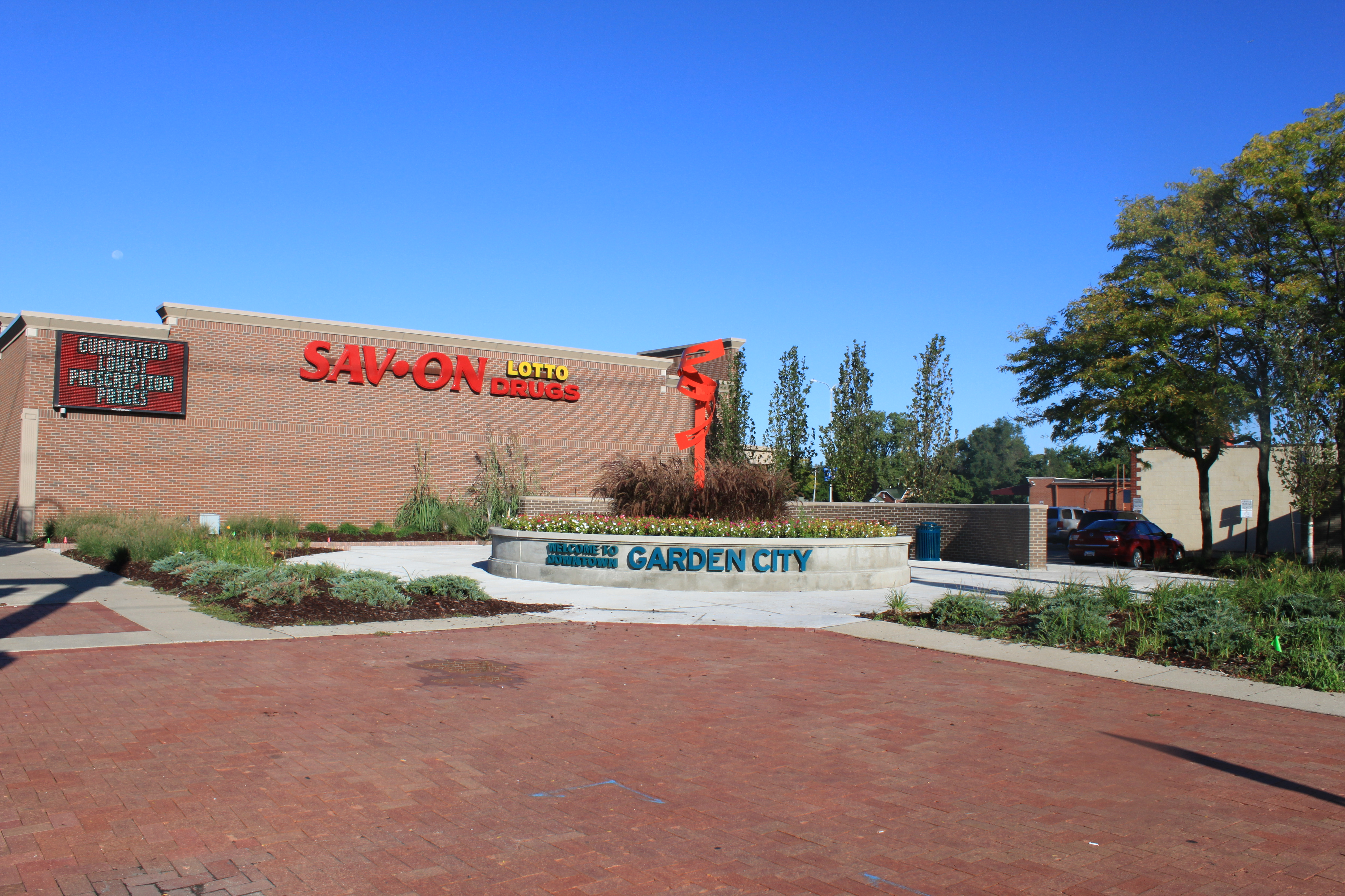 Downtown Garden City Michigan Welcome Sign, Northwest corner of Ford Road and Middlebelt Road.